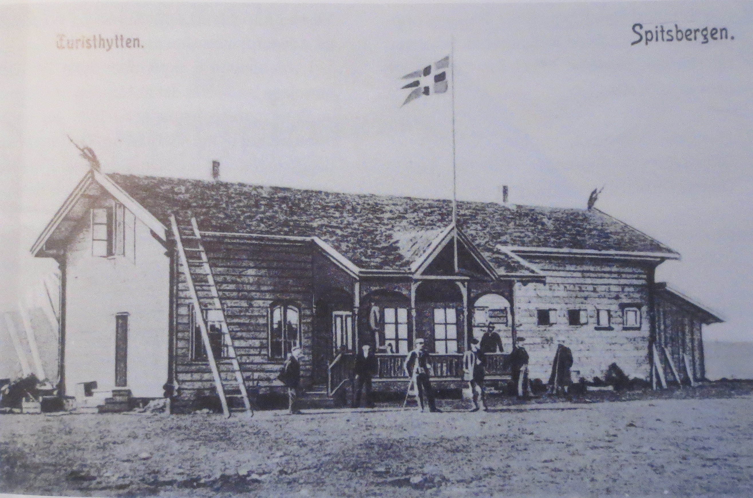 The Hotel ("Turisthytta") at Hotellneset, Svalbard, in 1908. The Norwegian state post flag is raised, in spite of the islands not becoming Norwegian Territory until 1920. The hotel was deconstructed in 1908 and moved to Longyearbyen.